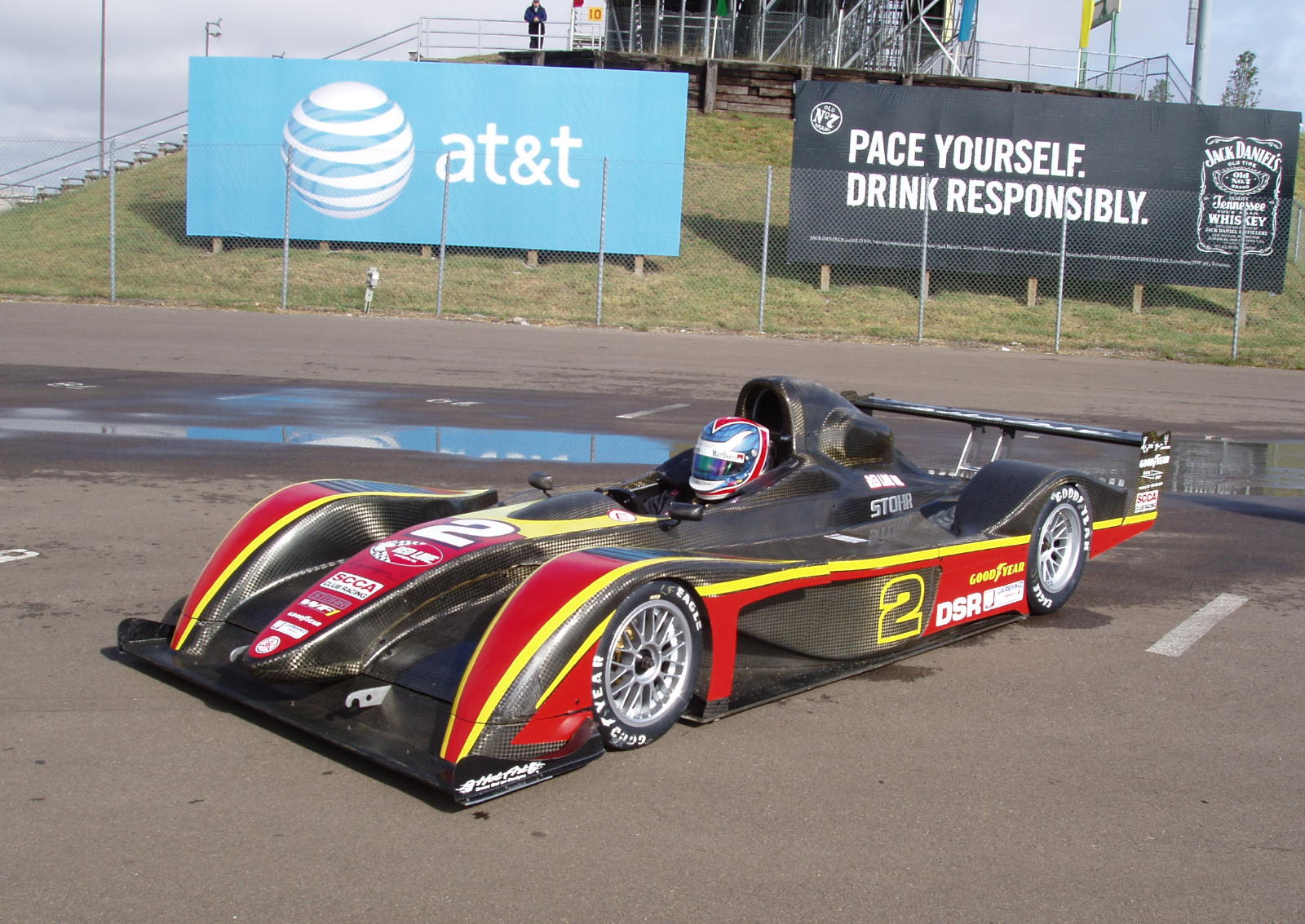 Stohr WF1 and winning driver Mark Jaremko at the 2006 SCCA National Runoffs in Topeka, Kansas.